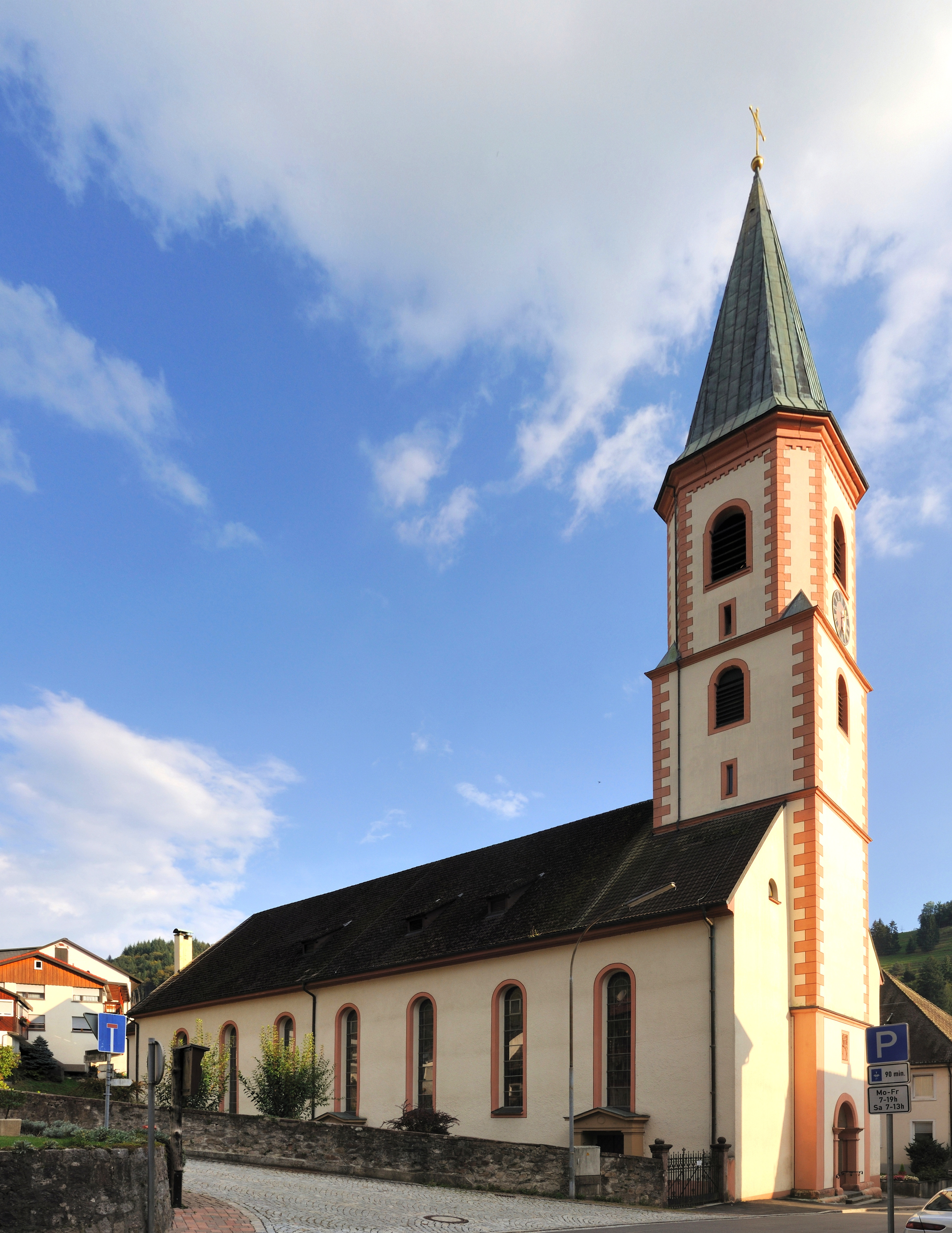 Zell im Wiesental: Saint Fridolin